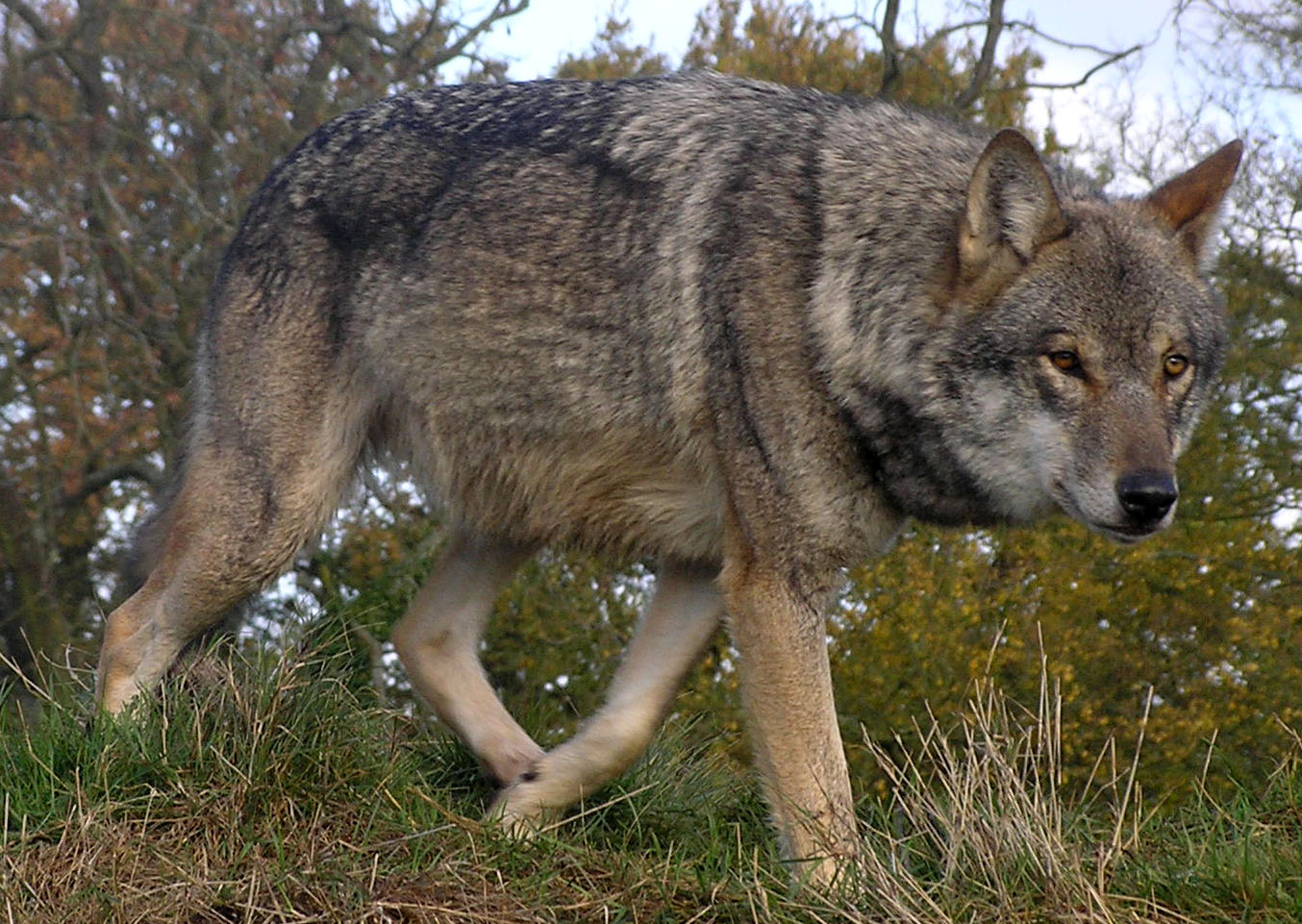 A photograph of Lunca, a European wolf at the UK Wolf Conservation Trust in Berkshire, England.